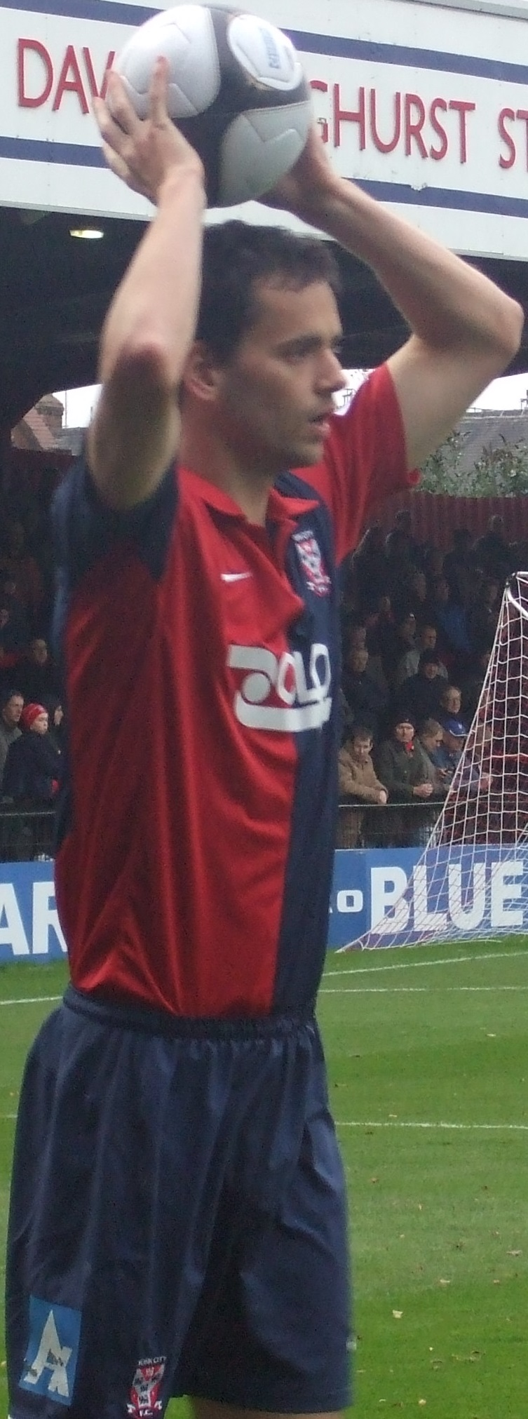 Ben Purkiss.